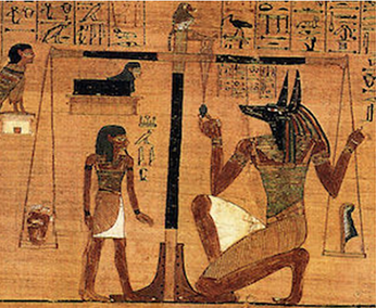 Shai, Egyptian god